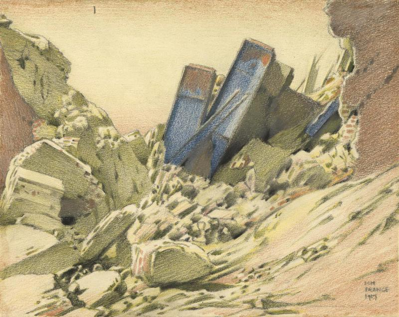 A railway bridge destroyed by bommbing and artillery fire. Two sections of damaged red brick walls frame a mass of rubble and fallen blue girders.